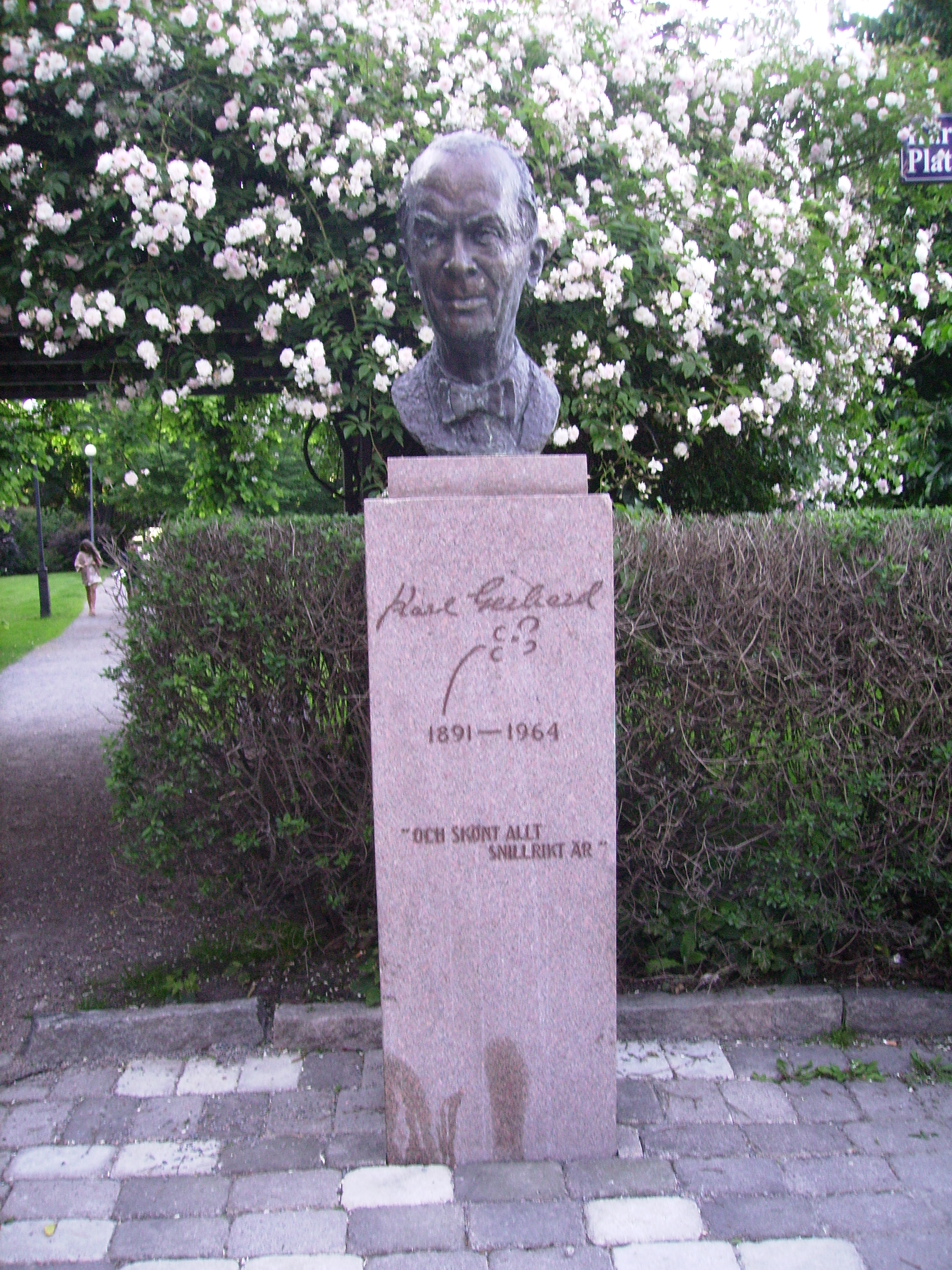 Picture of sculpture in Gothenburg, Karl Gerhard